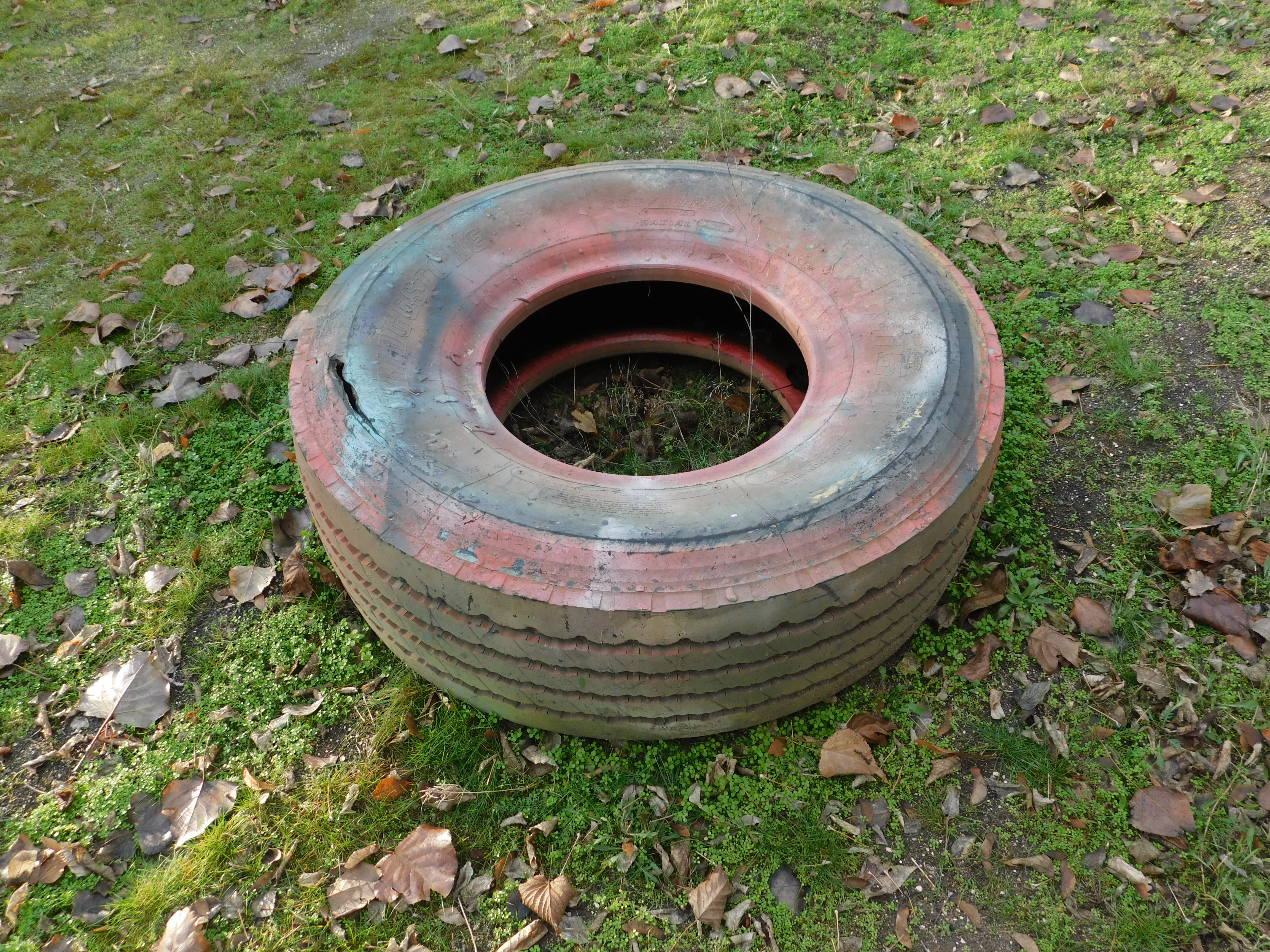 Red painted tire on grass in Monastyrsky island, Dnipro